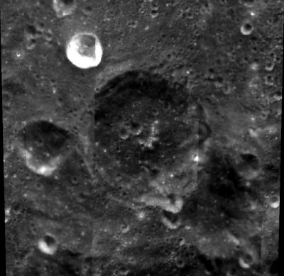 Clementine image (Pizzetti at centre, Tyndall immediately westward of it)